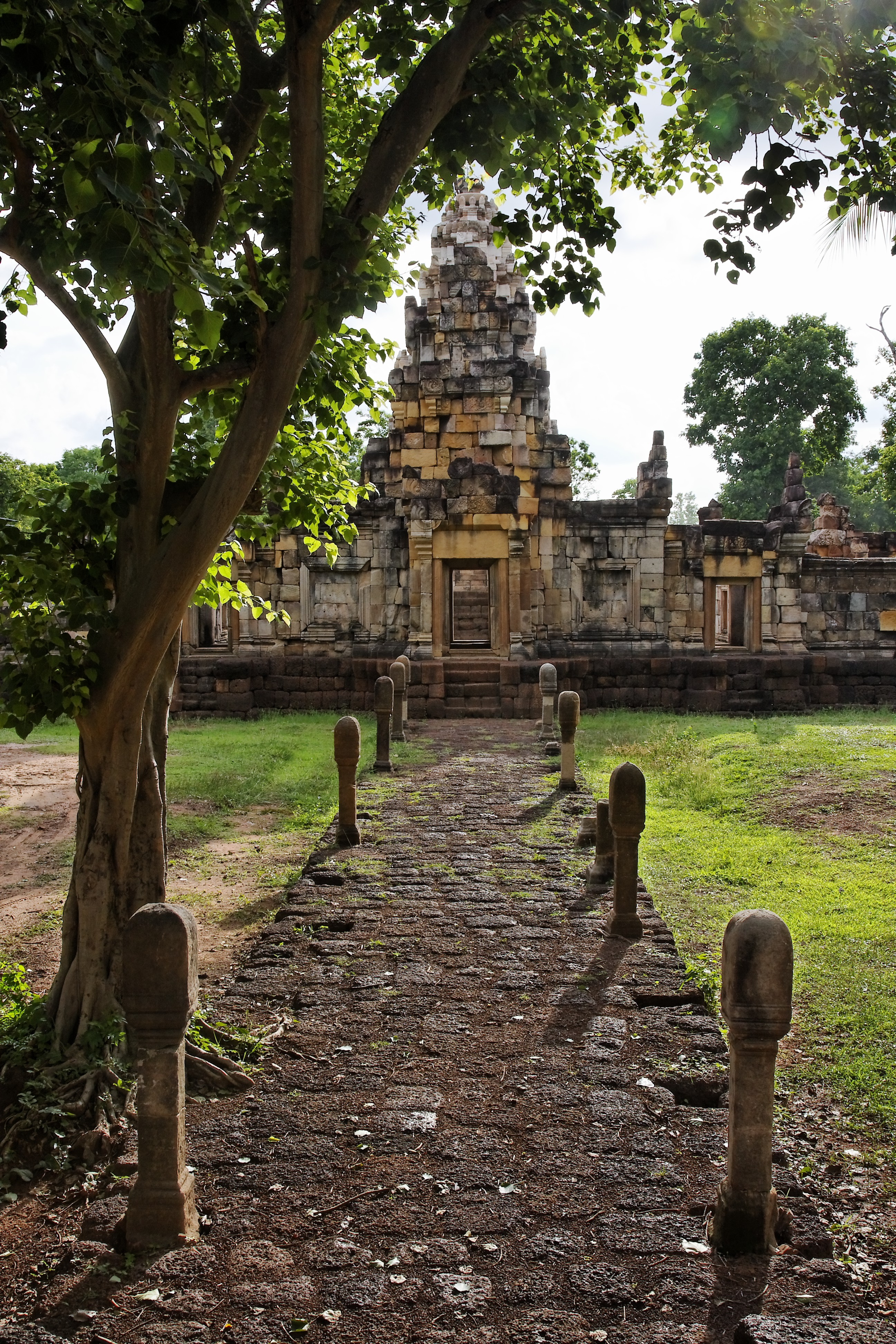 Prasat Sdok Kok Thom, Thailand